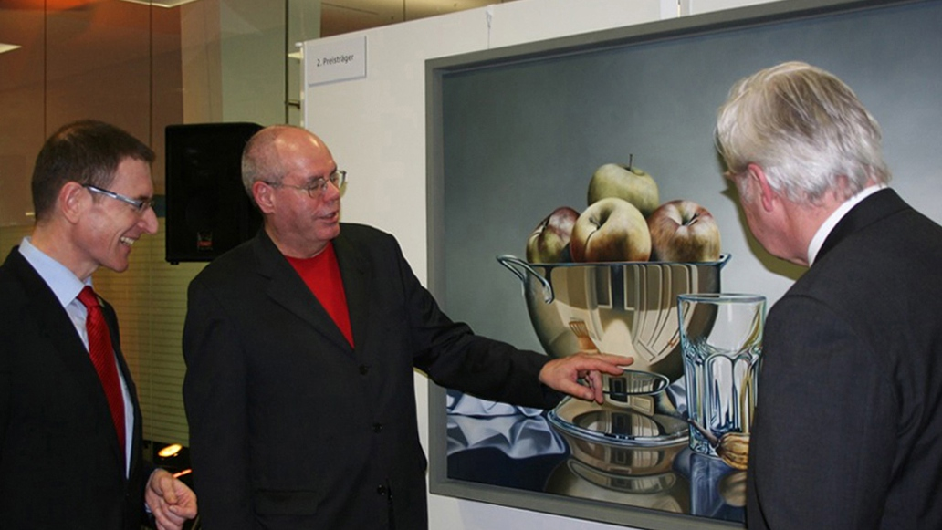 Joerg Eyfferth, Kunstpreis Karlsruhe